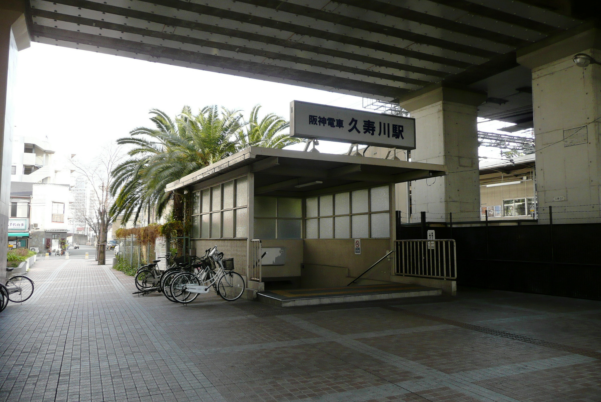 Hanshin Electric Railway,Main Line,Kusugawa Station north entrance. /阪神本線久寿川駅北口